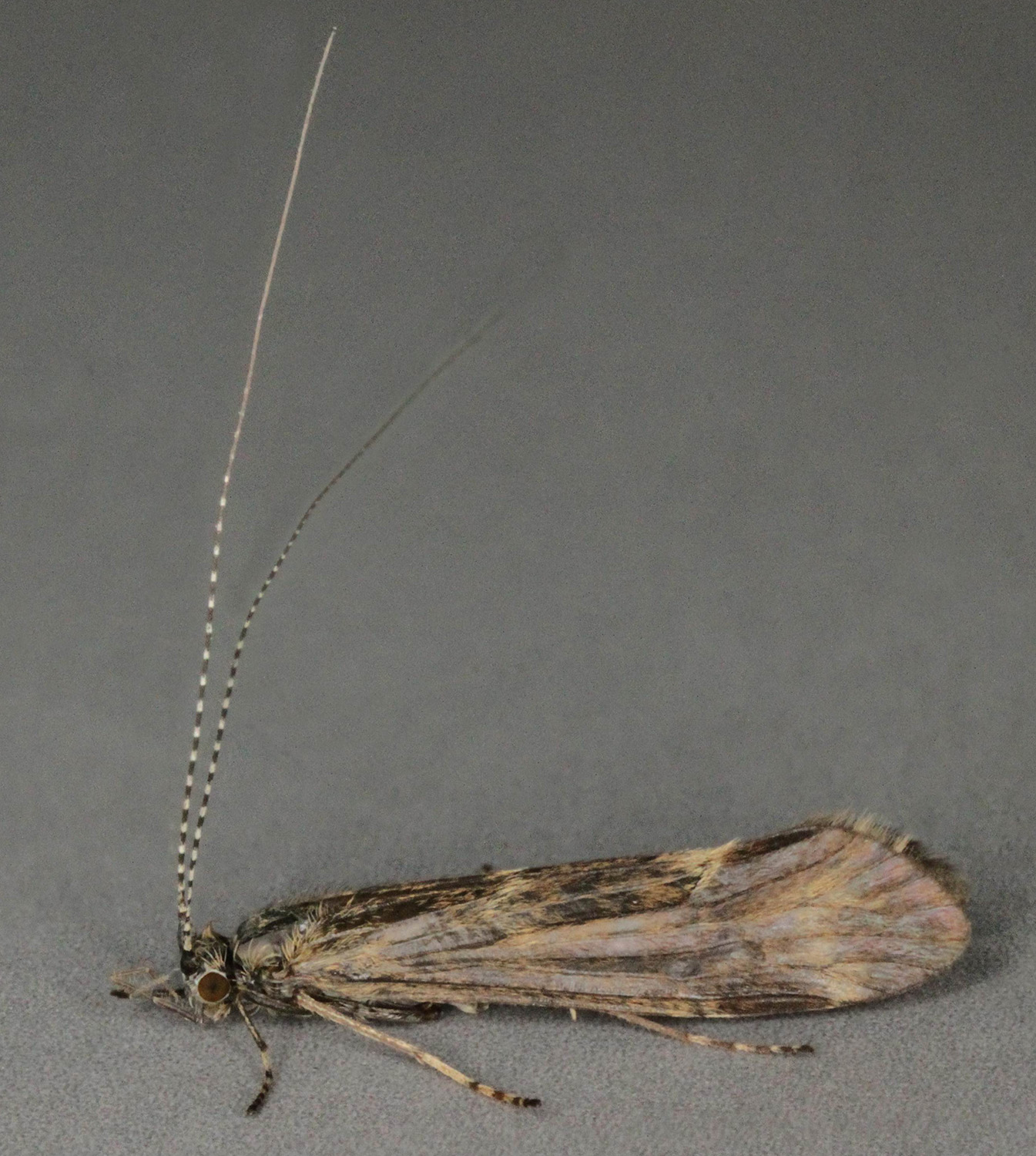 Ceraclea nigronervosa, Leptoceridae, Bala lakeshore, North Wales, August 2012